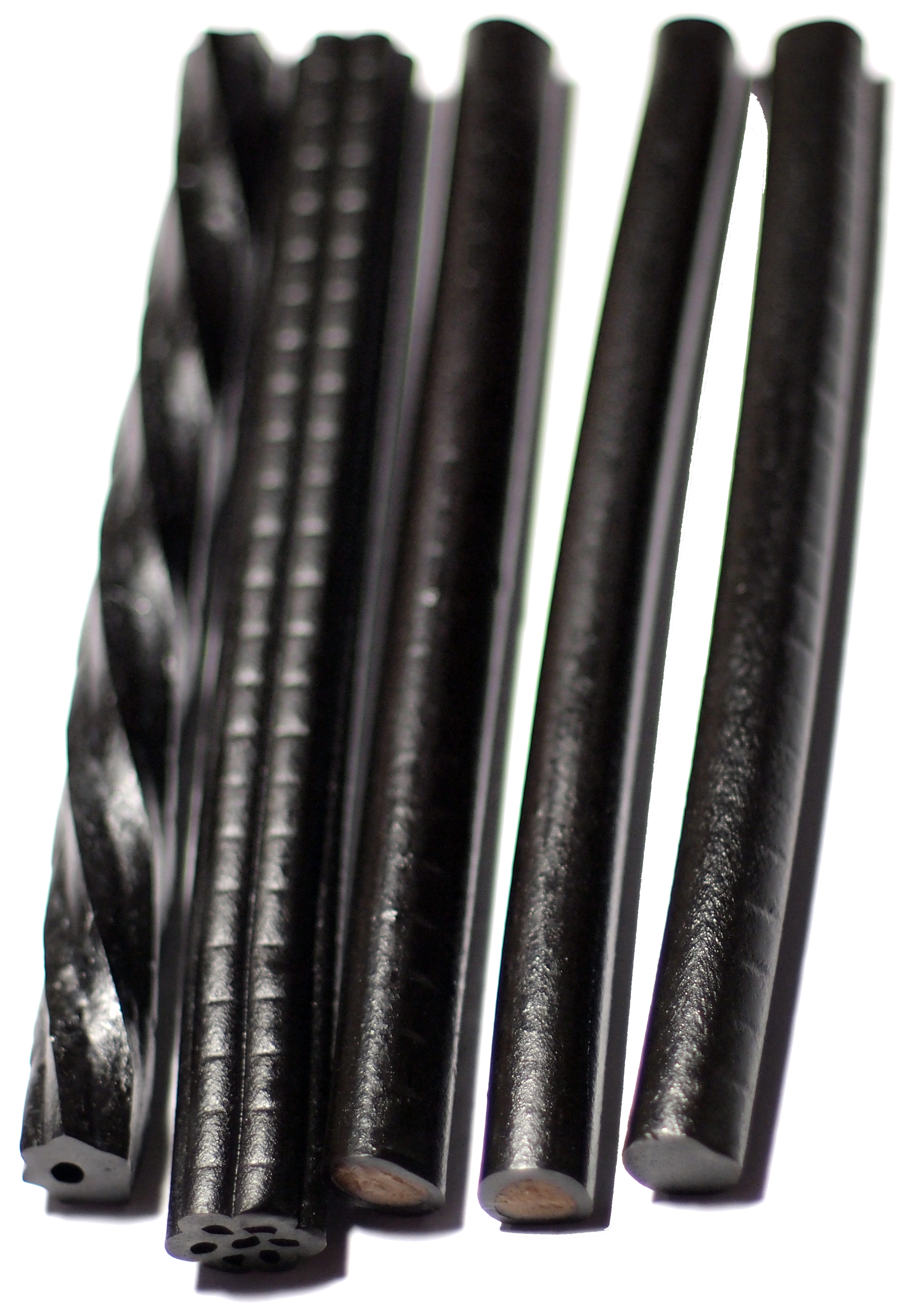 Pingvin Lakrits Zap by Toms. 5 liquorice / salmiak liquorice bars.